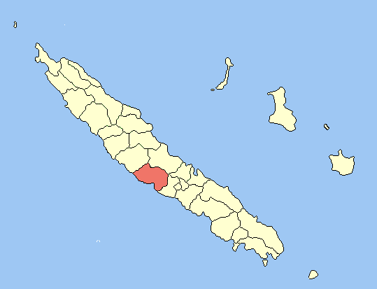 Created map myself.